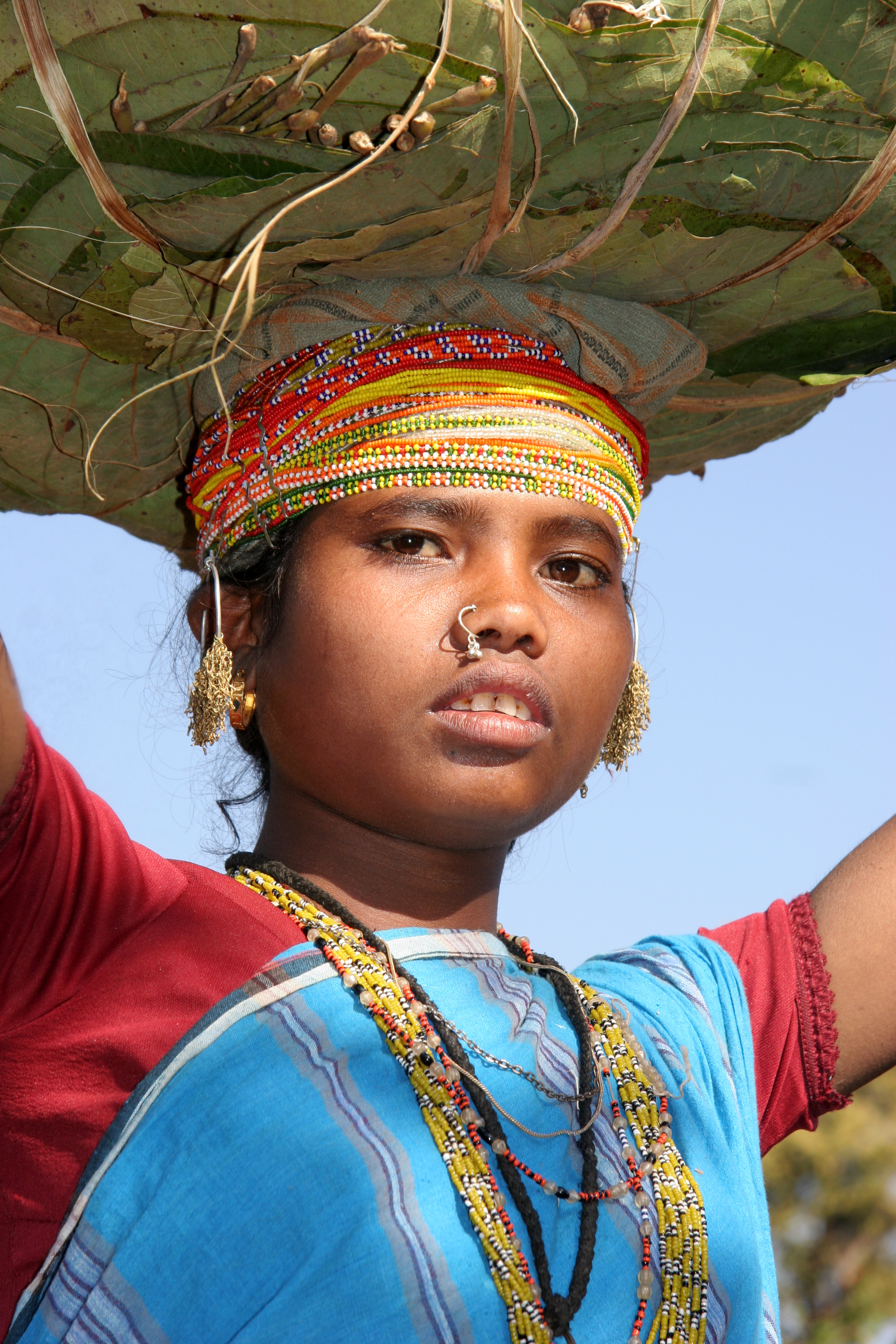 Young Bondo girl is headcarrying goods to be sold on local weekly market in Indian state Chhattisgarh.